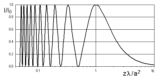 This figure shows the diffraction irradiance Vs distance along the central axis for circular aperture.